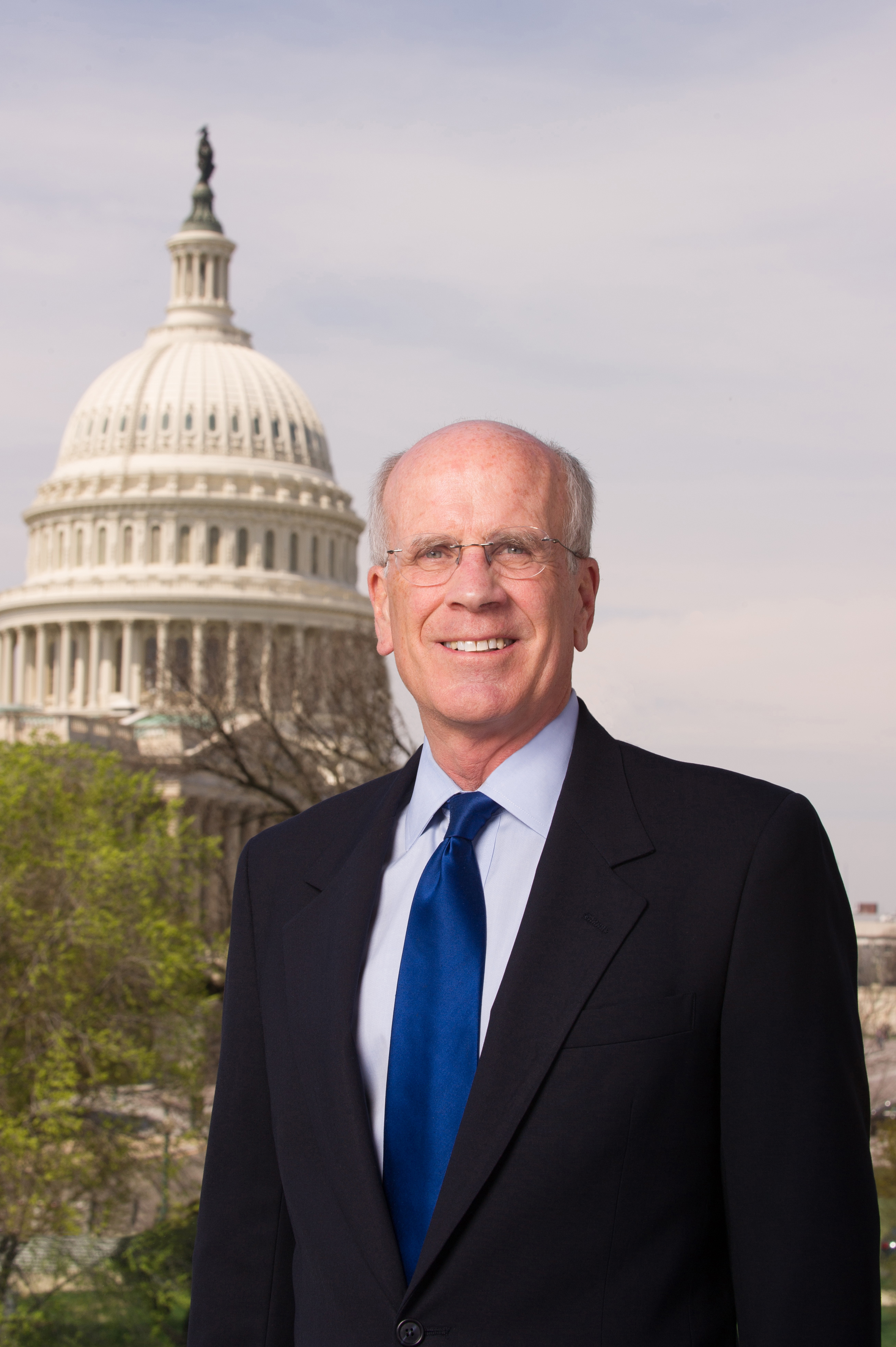 The Official Portrait of Representative Welch